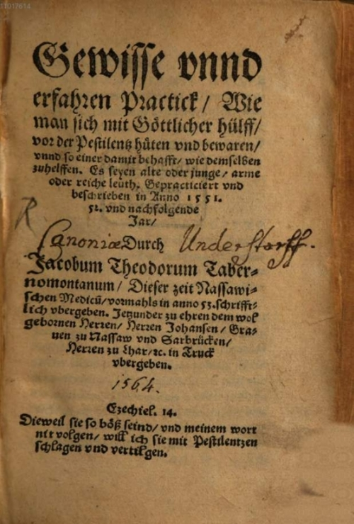 Tabernaemontanus, Gewisse Praqctick 1564 ed. title page